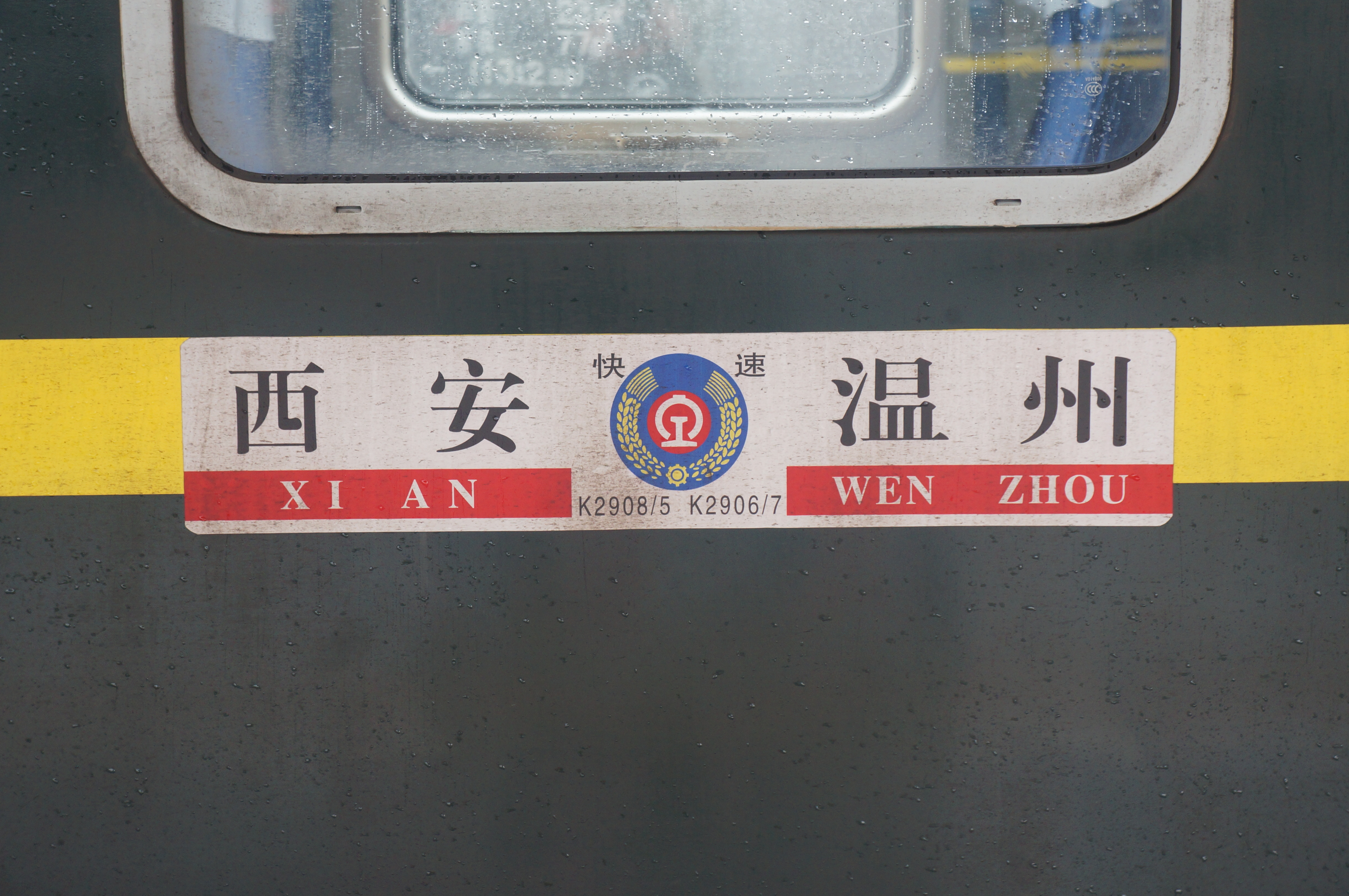 K2905 6 7 8 from Wenzhou to Xi'an. Taken at Jinhuanan Station.